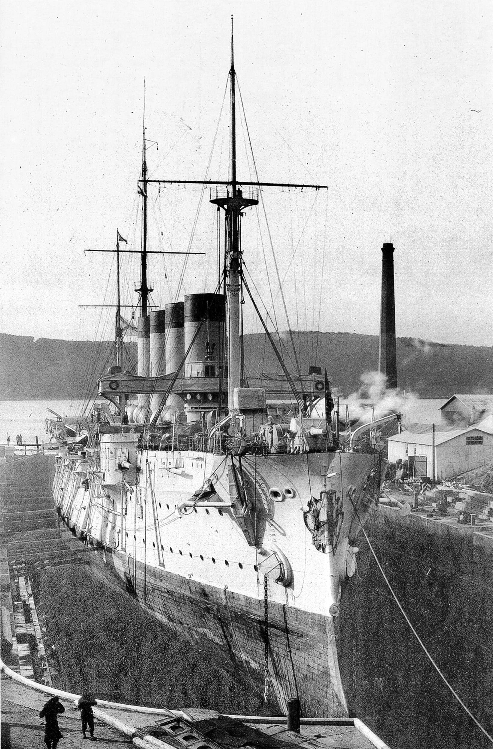 Imperial Russian cruiser Rossiya.